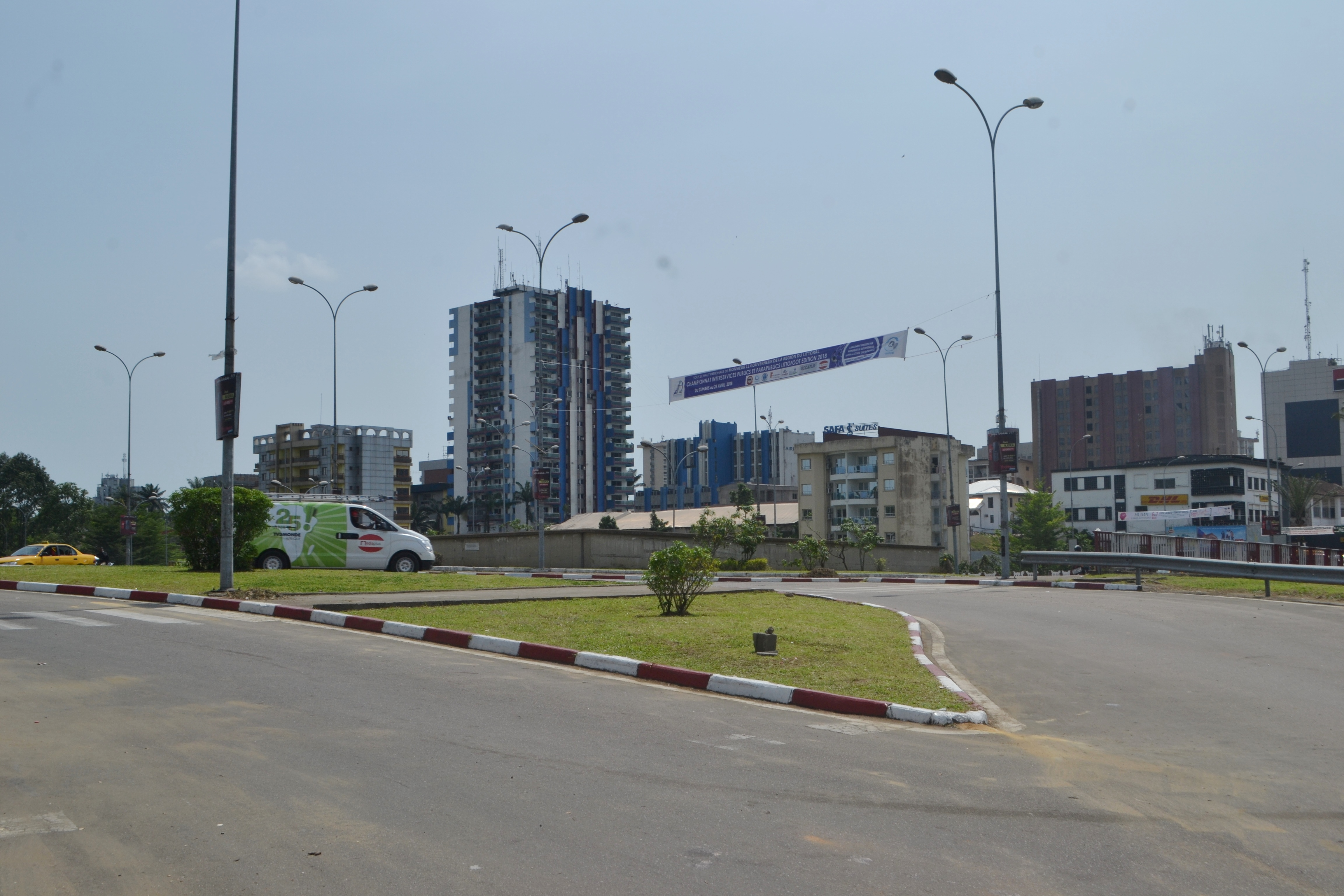 This is an image with the theme "Africa on the Move or Transport" from: Cameroon